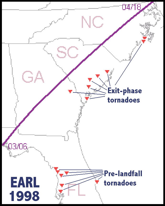 Preliminary mapping of tornadoes (filled triangles) associated with Hurricane Earl, September 1998. Thick line represents Earl's path, with approximate landfall and exit times pending final NHC "best track"